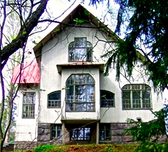 Villa Heikel in Kauniainen Finland